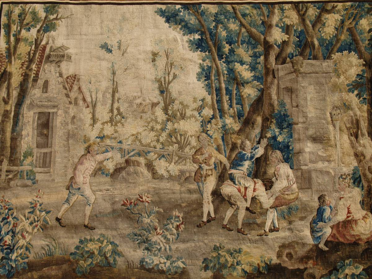 Beauvais Tapestry, Le Cheval Fondu